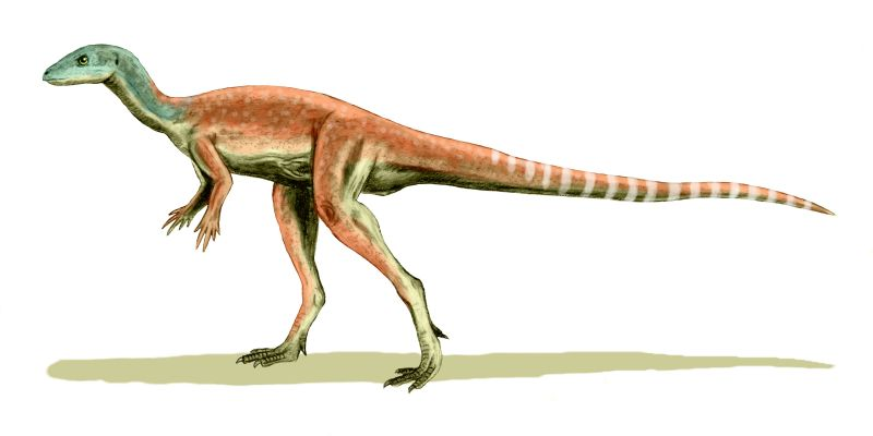 Eocursor parvus, a primitive ornithischian from the Late Triassic of South Africa, proportions based on skeletal by Scott Hartman, pencil drawing